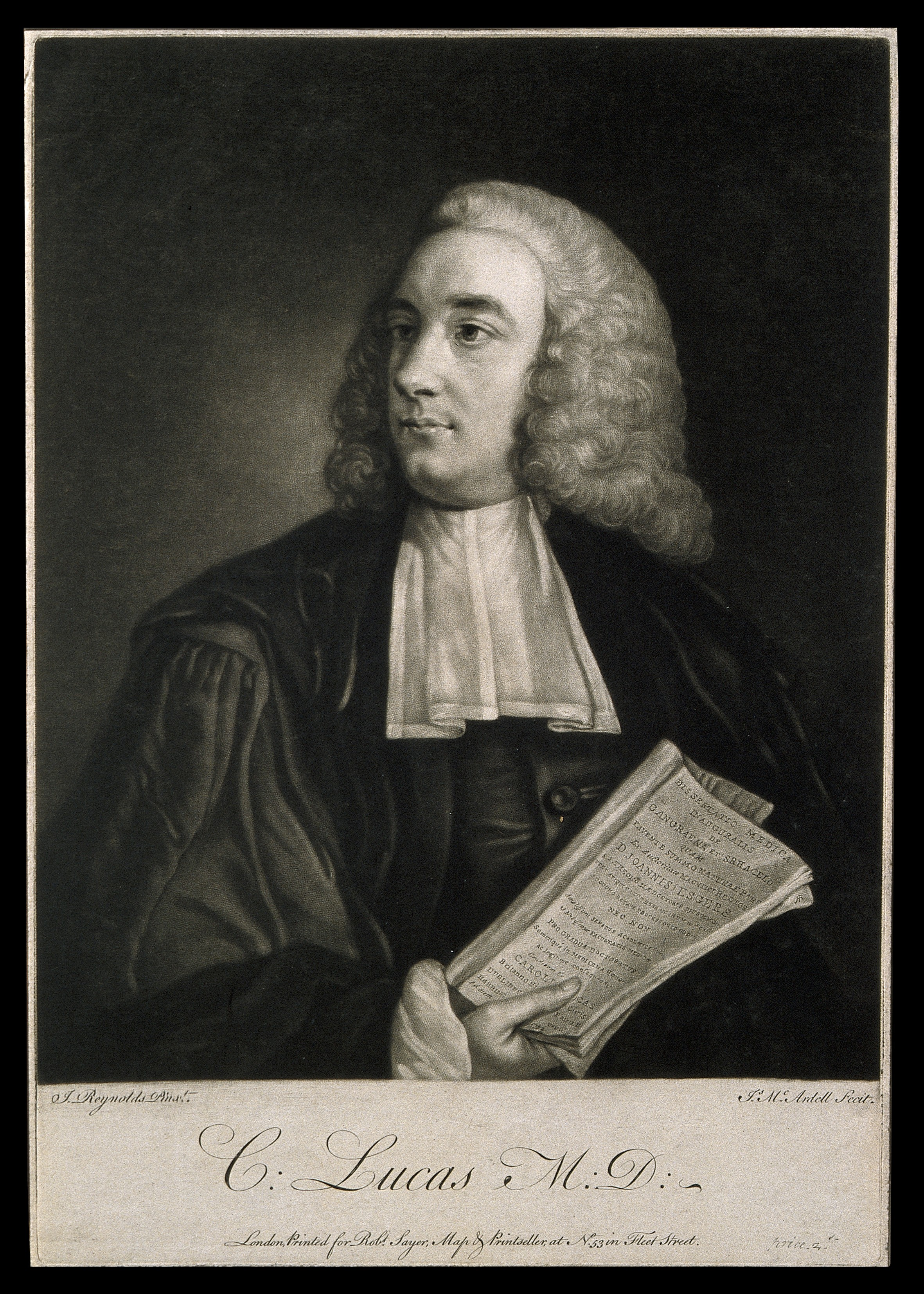 Charles Lucas. Mezzotint by J. McArdell, 1755, after Sir J. Reynolds. Iconographic Collections Keywords: portrait prints; Charles Lucas; mezzotints; James McArdell; Joshua Reynolds